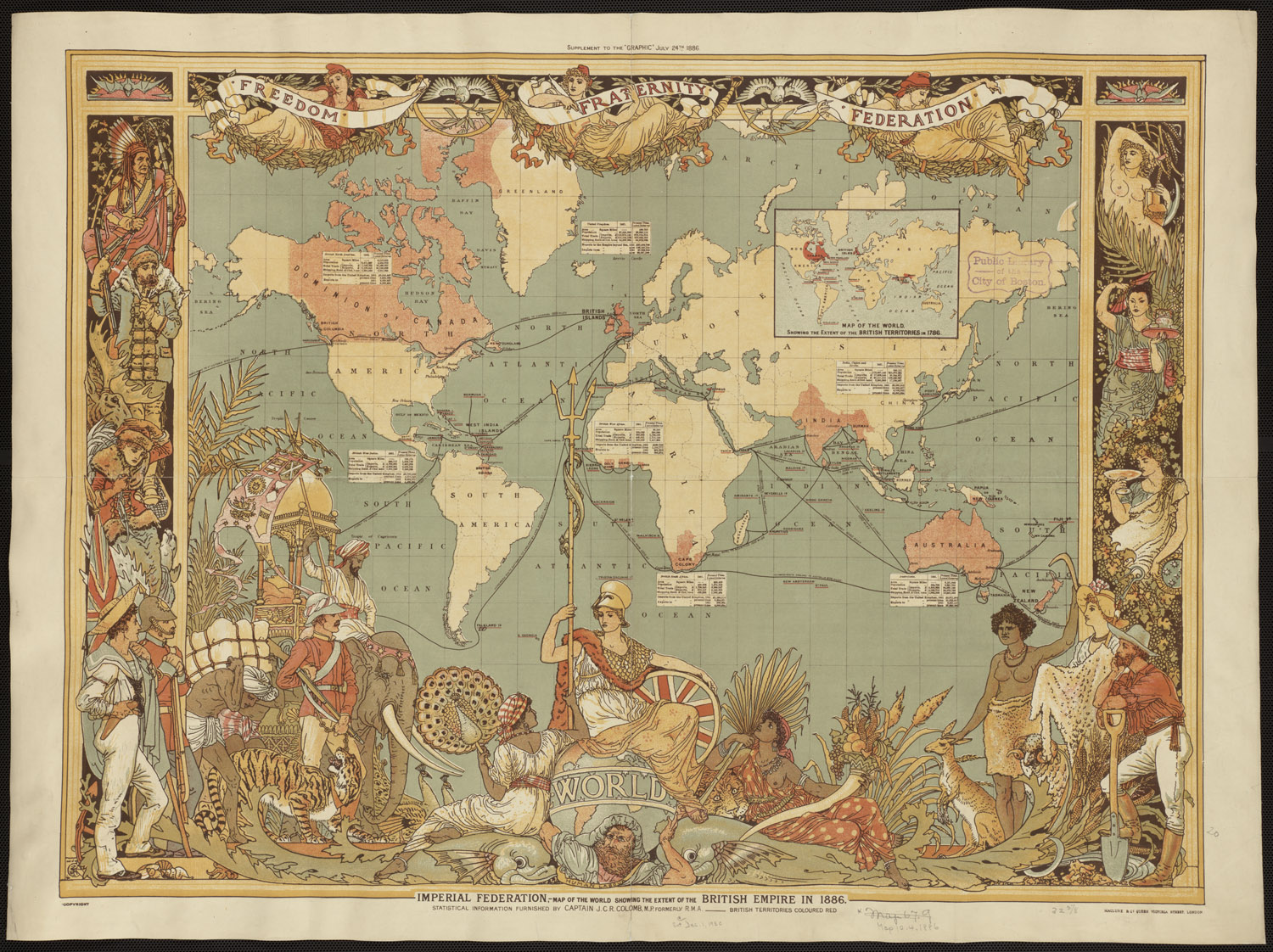 Map of the world showing the extent of the British Empire in 1886. British territories coloured in red. Published as a supplement for The Graphic, July 1886, as the "Imperial Federation". Statistical information furnished by Captain J.C.R. Colomb, M.P. formerly R.M.A.